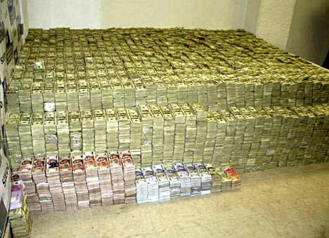 part of $207 million confiscated during the bust of an illegal drug ring